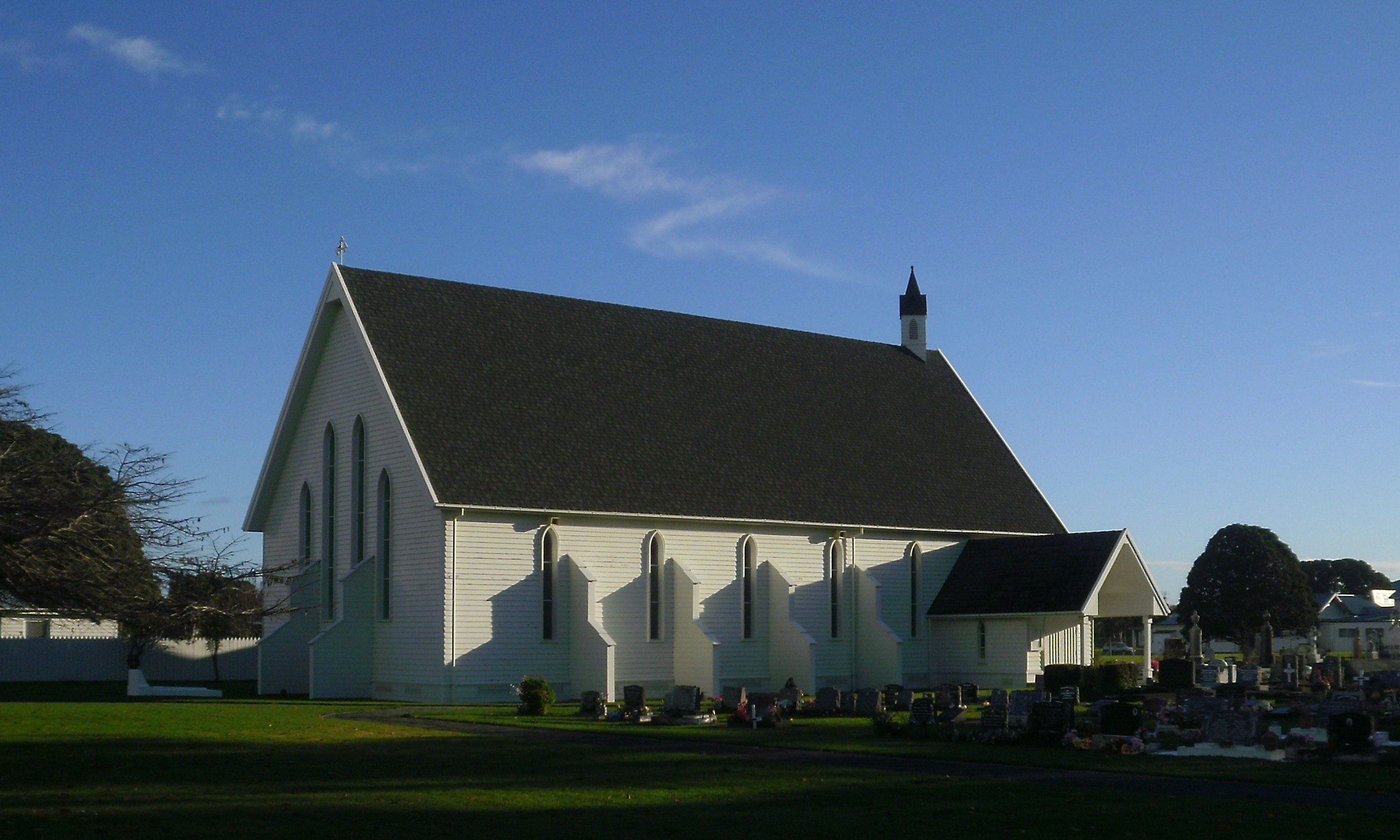 Rangiātea Church, Otaki, New Zealand. From the side showing main entrance.